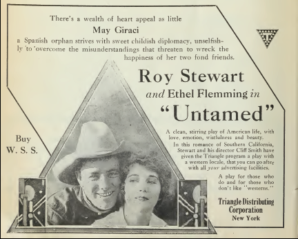 Advertisement for the American western film Untamed (1918) with Roy Stewart and Ethel Fleming (misspelled as Flemming in the ad), directed by Clifford S. Smith